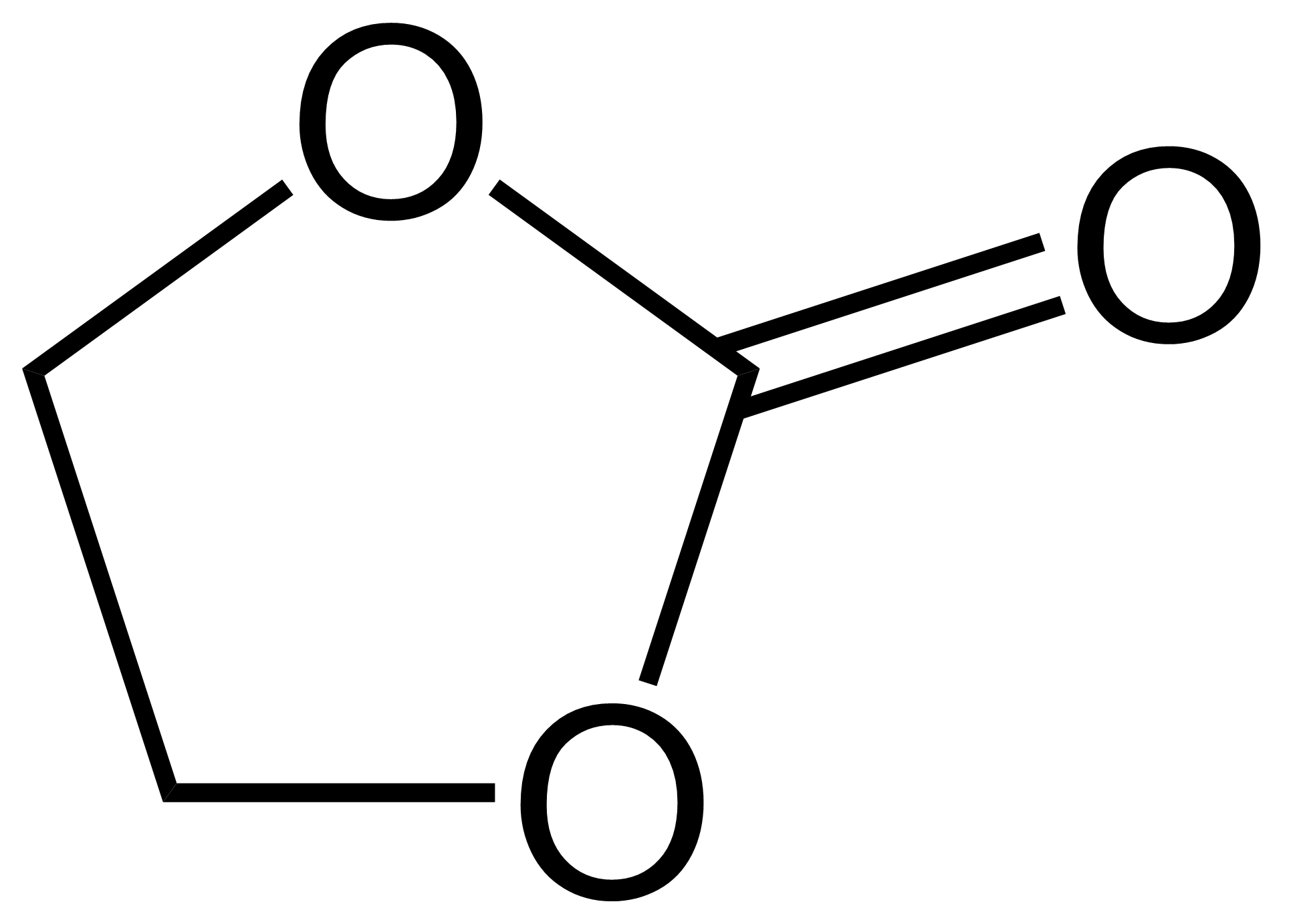 Chemical structure of ethylene carbonate